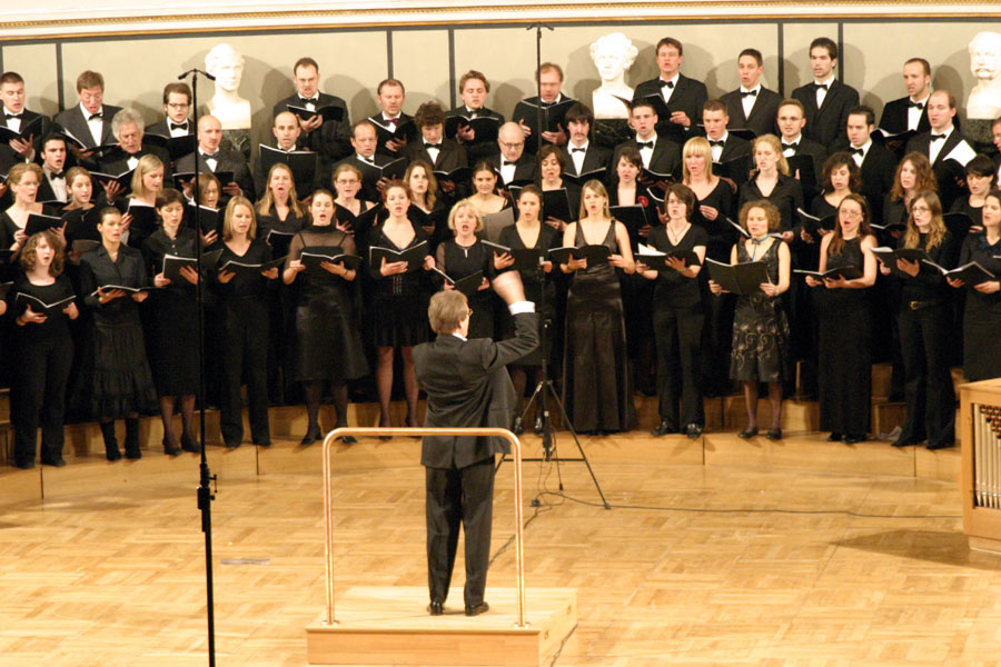 Choir of the Munich University of Applied Sciences Concert in the Great Hall of the Ludwig Maximilian University, Munich